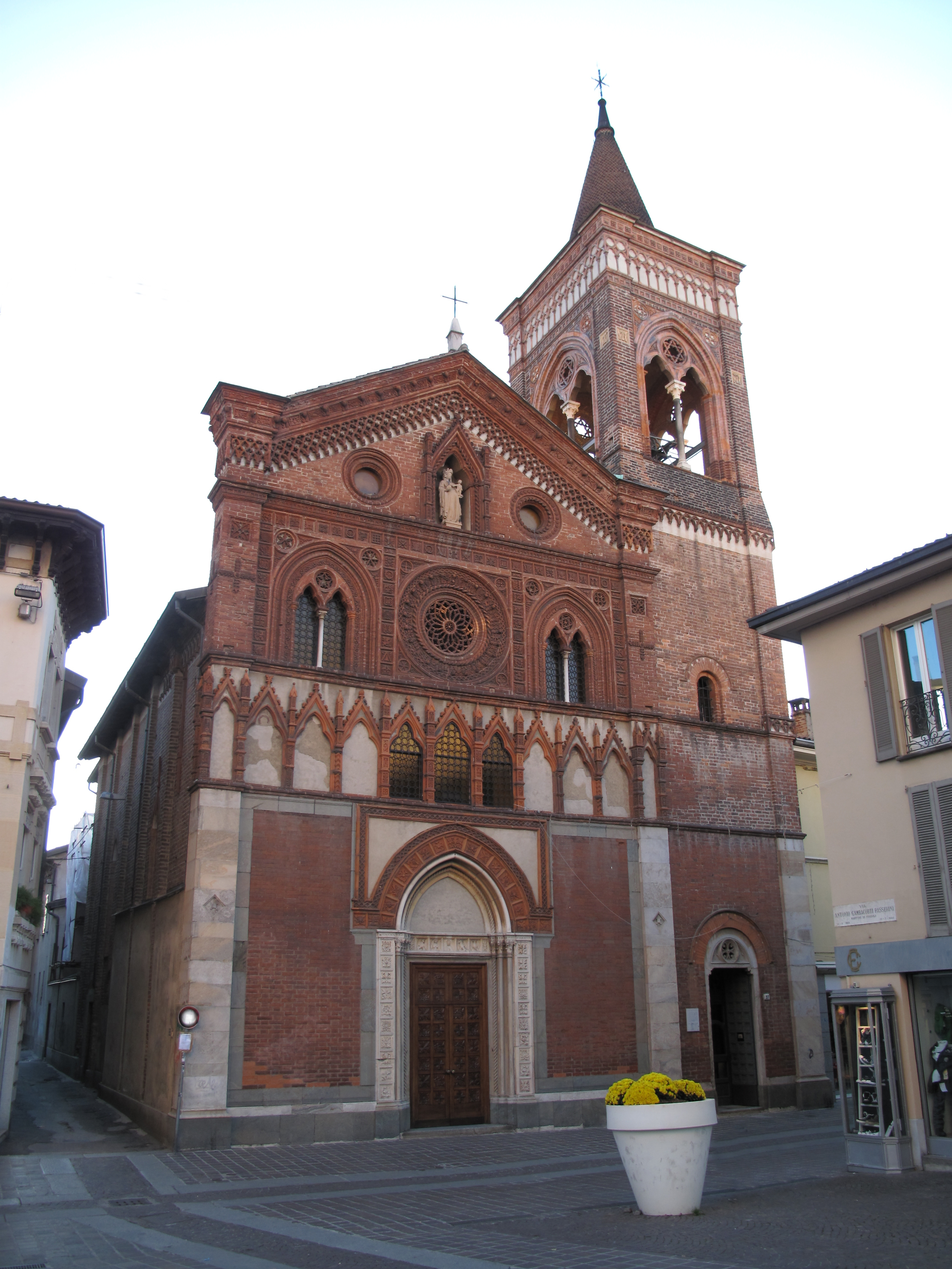 Church of Santa Maria in Strada in Monza (Milan)